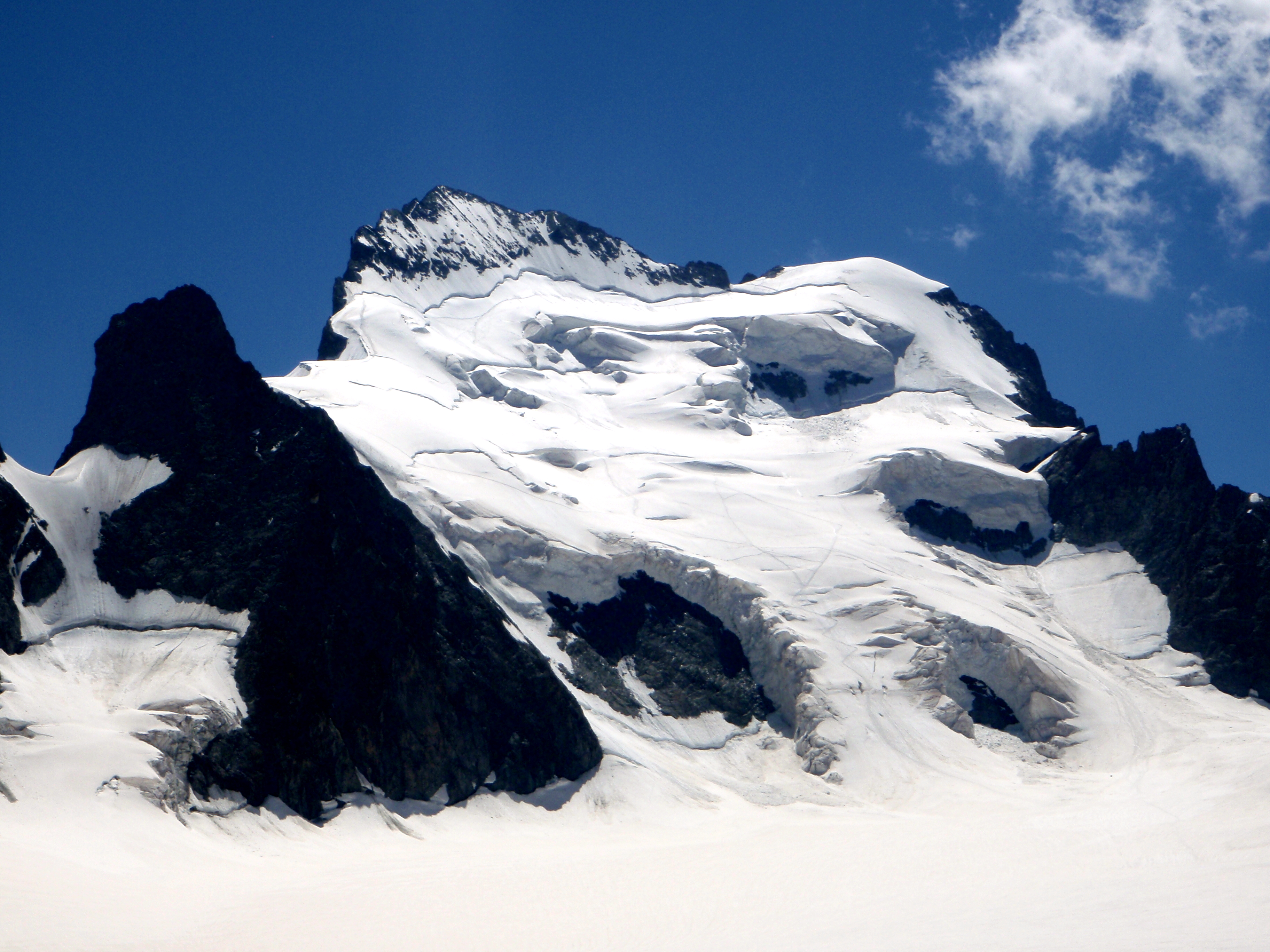 Classical View of Barre des Écrins, 4.102 m, above Glacier Blanc, Haut Dauphiné, France. Photo was taken 15/07/2010.